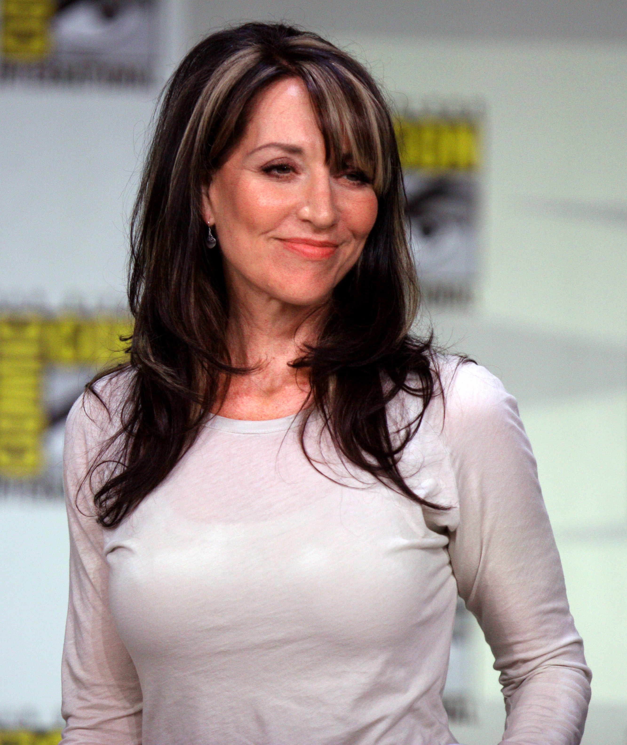 Katey Sagal at the 2011 San Diego Comic-Con.